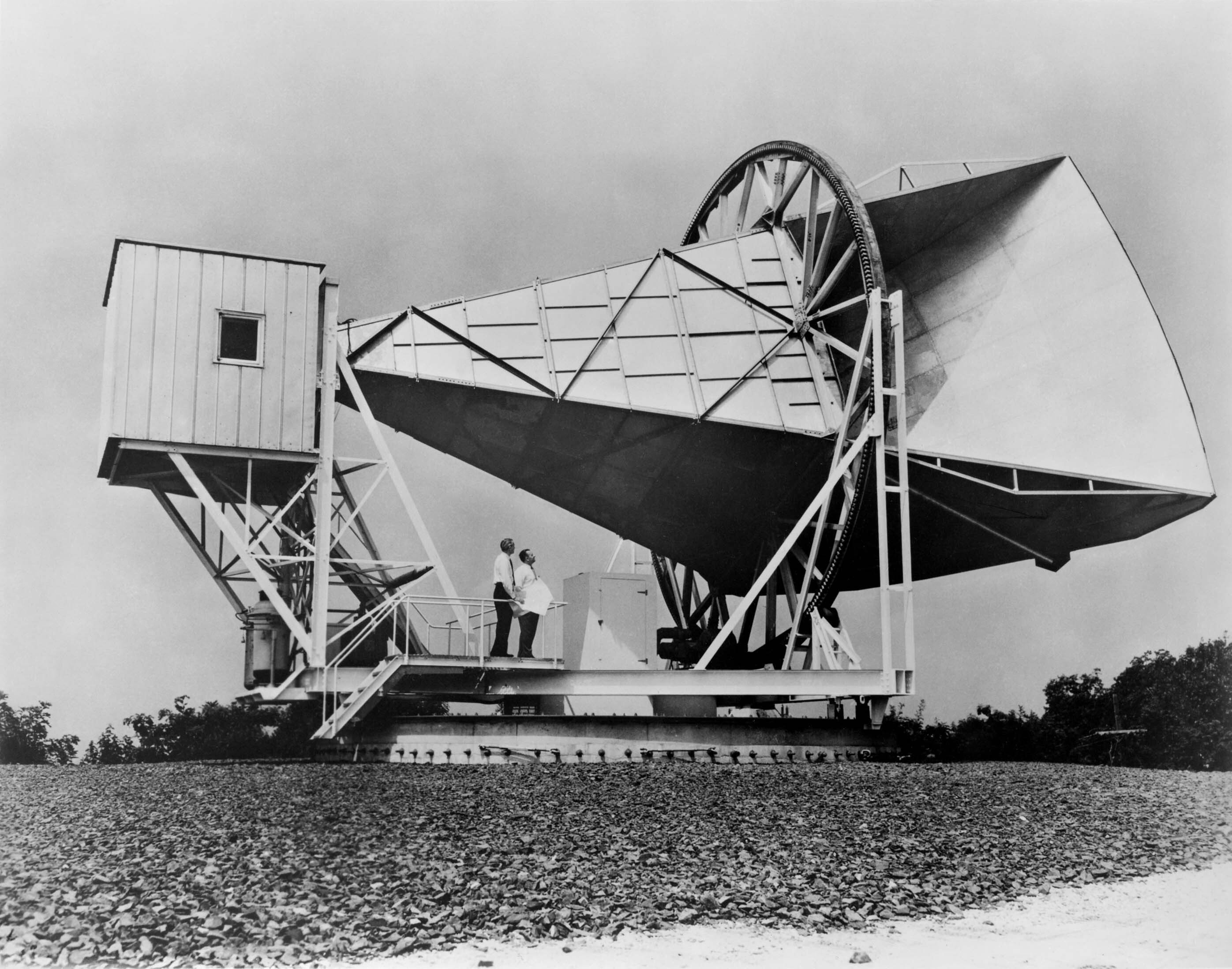 The 15 meter Holmdel horn antenna at Bell Telephone Laboratories in Holmdel, New Jersey was built in 1959 for pioneering work in communication satellites for the NASA ECHO I. The antenna was 50 feet in length and the entire structure weighed about 18 tons. It was composed of aluminum with a steel base. It was used to detect radio waves that bounced off Project ECHO balloon satellites. The horn was later modified to work with the Telstar Communication Satellite frequencies as a receiver for broadcast signals from the satellite. In 1964, radio astronomers Robert Wilson and Arno Penzias discovered the cosmic microwave background radiation with it, for which they were awarded the 1978 Nobel prize in physics. In 1990 the horn was dedicated to the National Park Service as a National Historic Landmark. This type of antenna is called a Hogg or horn-reflector antenna, invented by Albert Beck and Harald Friis in 1941 and further developed by D. C. Hogg at Bell Labs in 1961. It consists of a flaring metal horn with a reflector mounted in the mouth at a 45° angle, so the antenna receives radio waves at a 90° angle to the horn axis. The reflector is a segment of a parabolic reflector, so the antenna is equivalent to a parabolic antenna fed off-axis. This type of antenna has characteristics that make it a good radio telescope: it has very broad bandwidth, the aperture efficiency can be calculated accurately, and the horn shields the antenna from electrical noise coming from angles outside the beam axis, so it picks up little thermal ground noise.